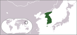 Location map of Goryeo